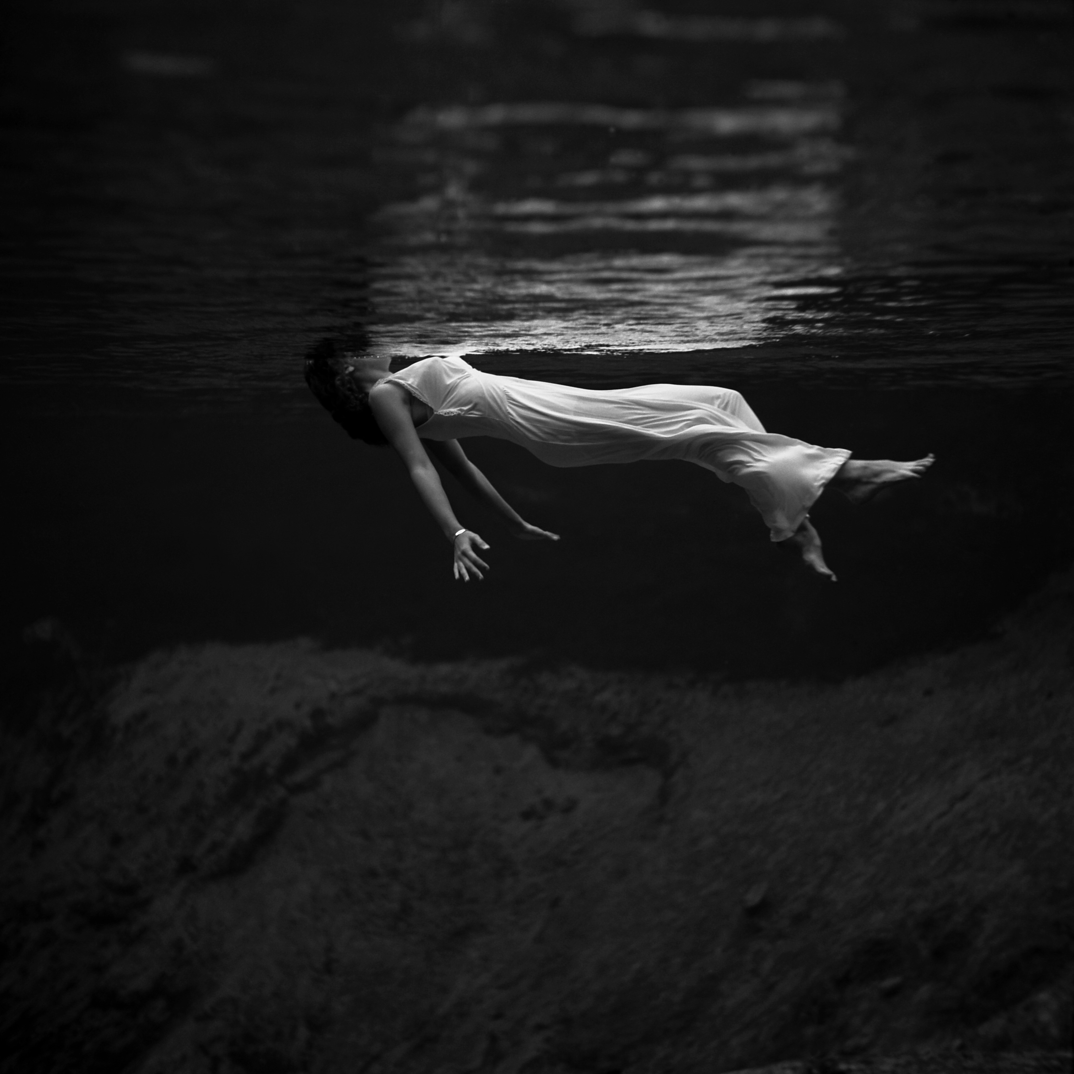 Underwater view of a woman, wearing a long gown, floating in water. Photograph by Toni Frissell at Weeki Wachee Springs, Florida, USA, 1947.